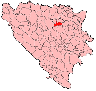 Location of Maglaj municipality in Bosnia and Herzegovina.